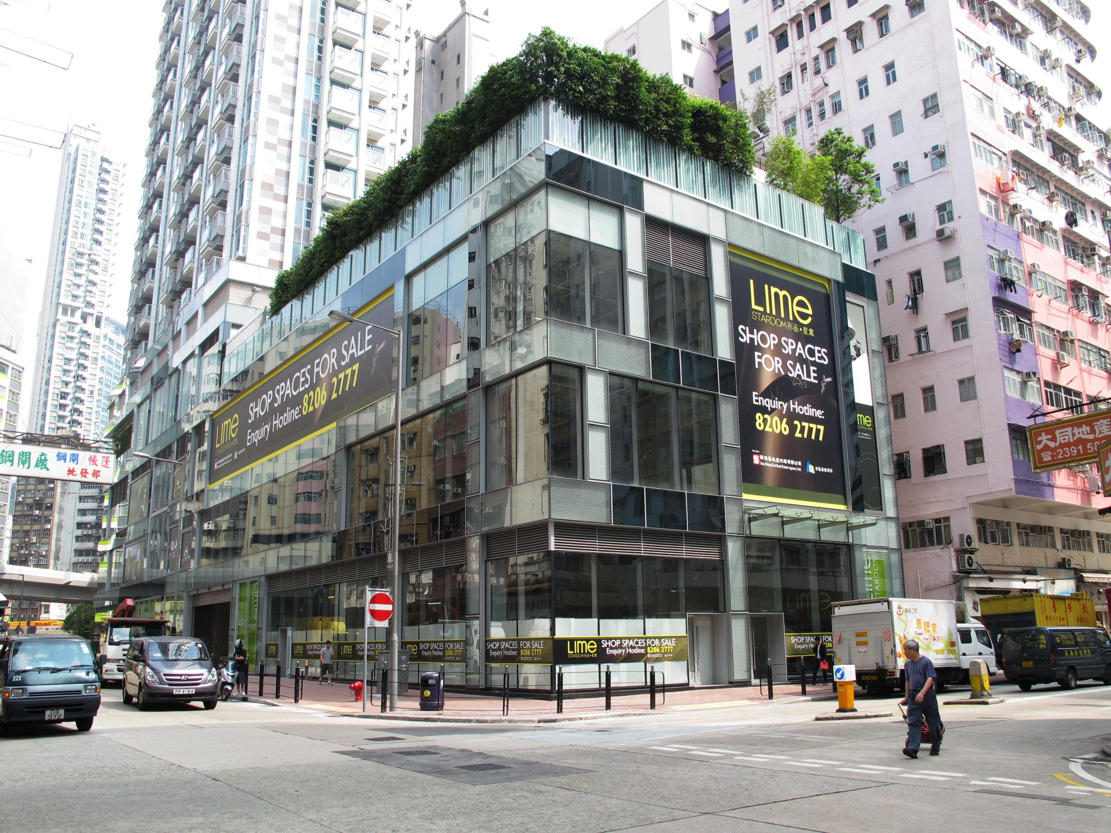 Lime Stardom Shopping Arcade 形品·星寓商場